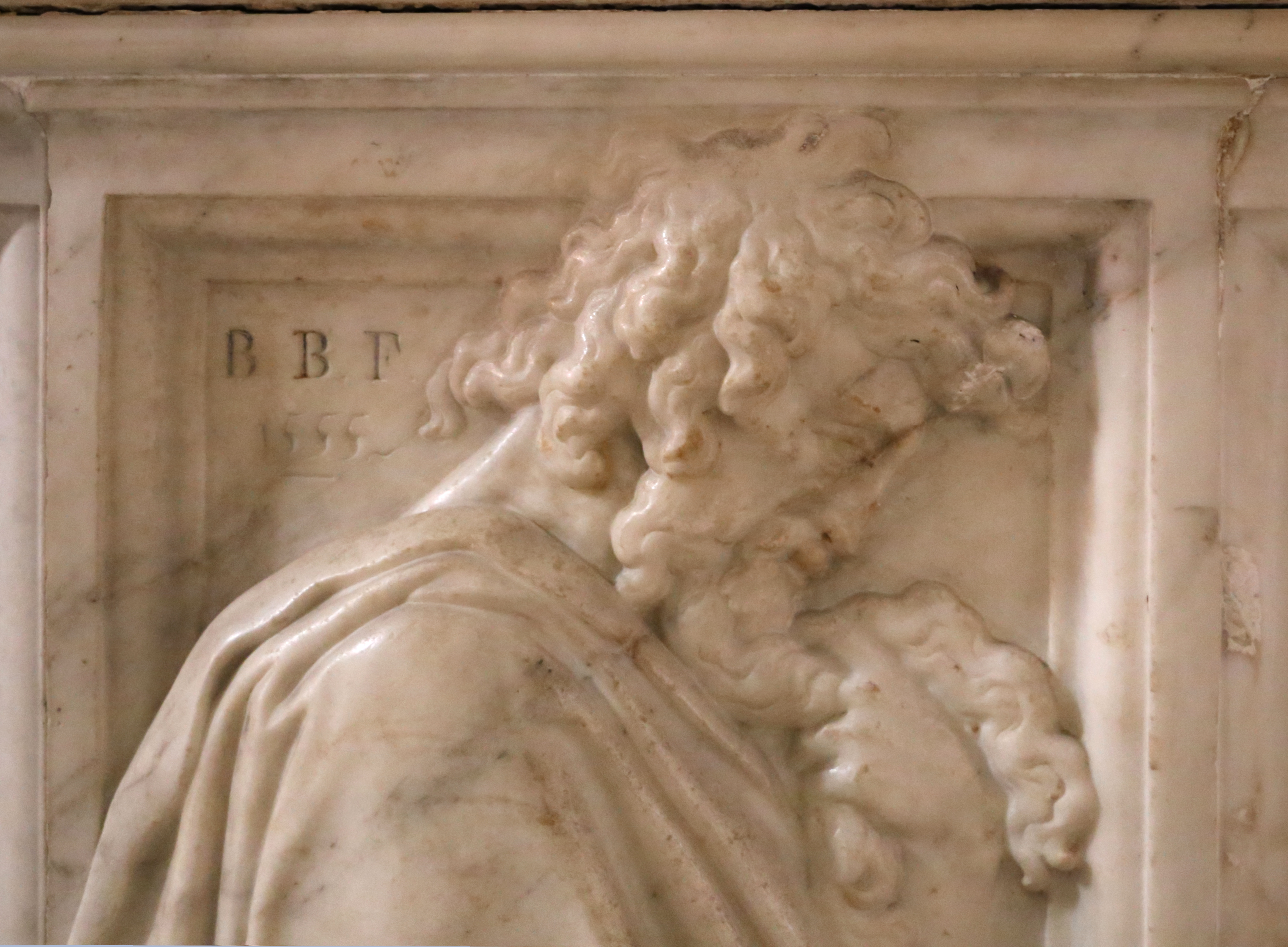 Reliefs from the choir of Santa Maria del Fiore